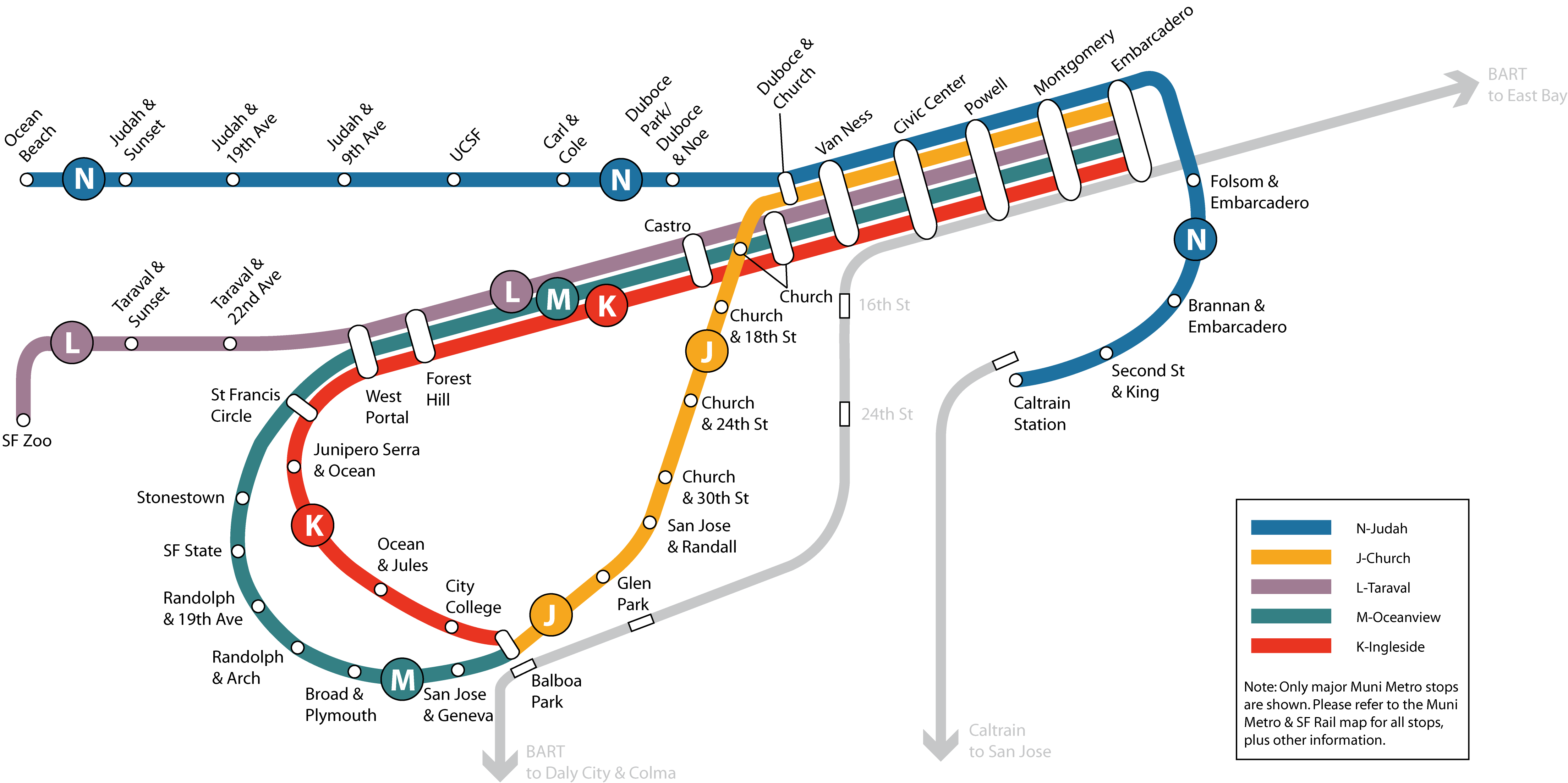 Schematic of San Francisco Muni Metro, showing major stops only. Based on map at